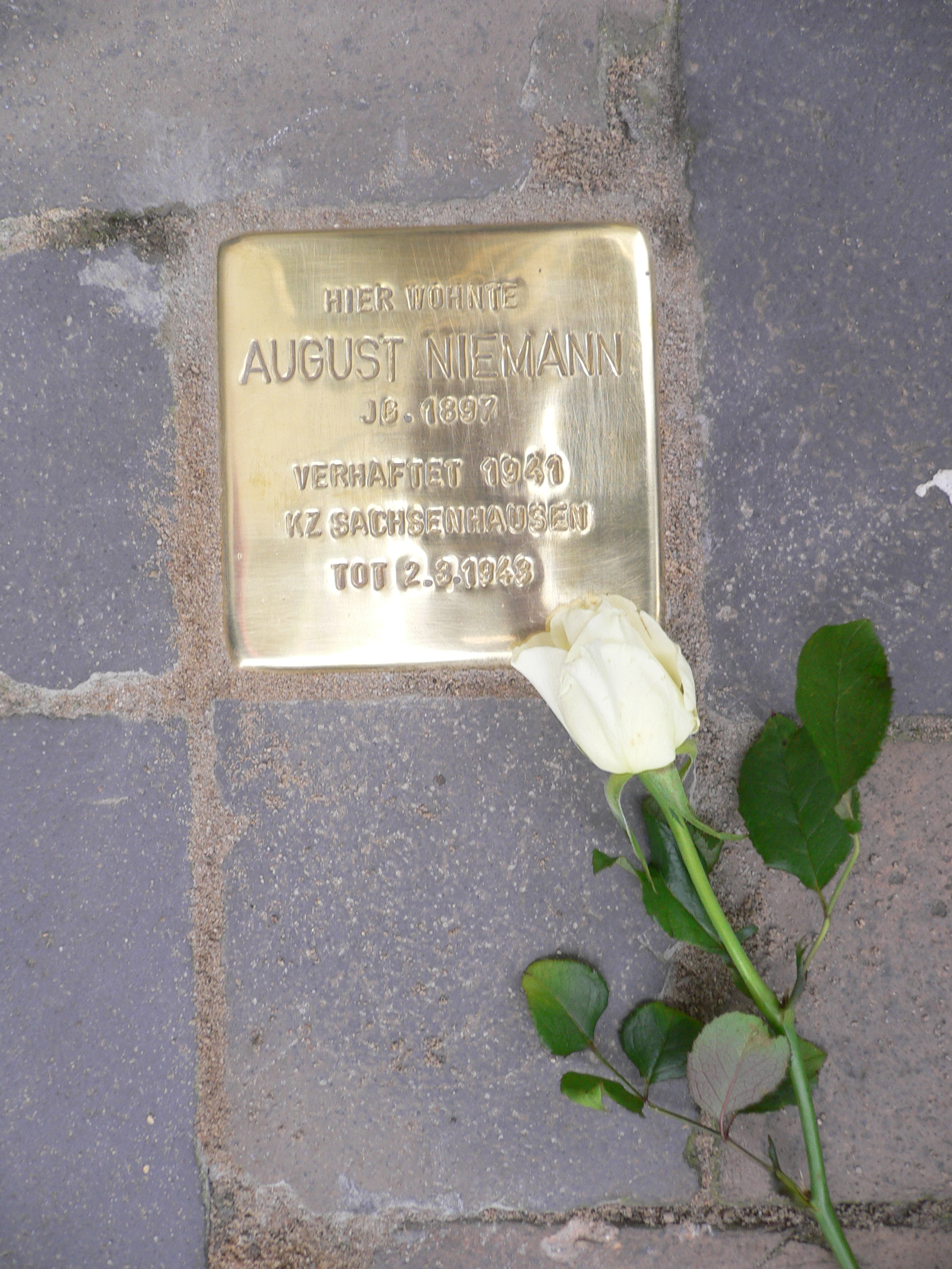 Memorial "Stolperstein" for August Ludwig Niemann, a homosexual victim of the Nazis. Located at St. Jürgensplatz 8 in the city Flensburg. The text reads: "Here lived August Niemann, born 1897. Arrested 1941. Sachensenhausen Concentration Camp. Dead on 2 March 1943."